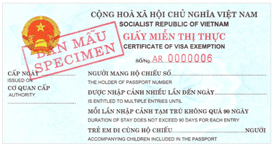 Vietnam certificate of visa exemption (specimen) sticker for overseas Vietnamese who holds foreign passports.